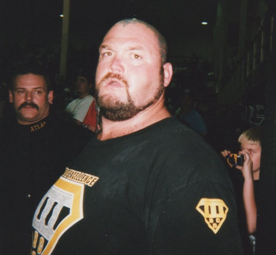 A photograph of Bam Bam Bigelow taken at this show , October 4, 1998.